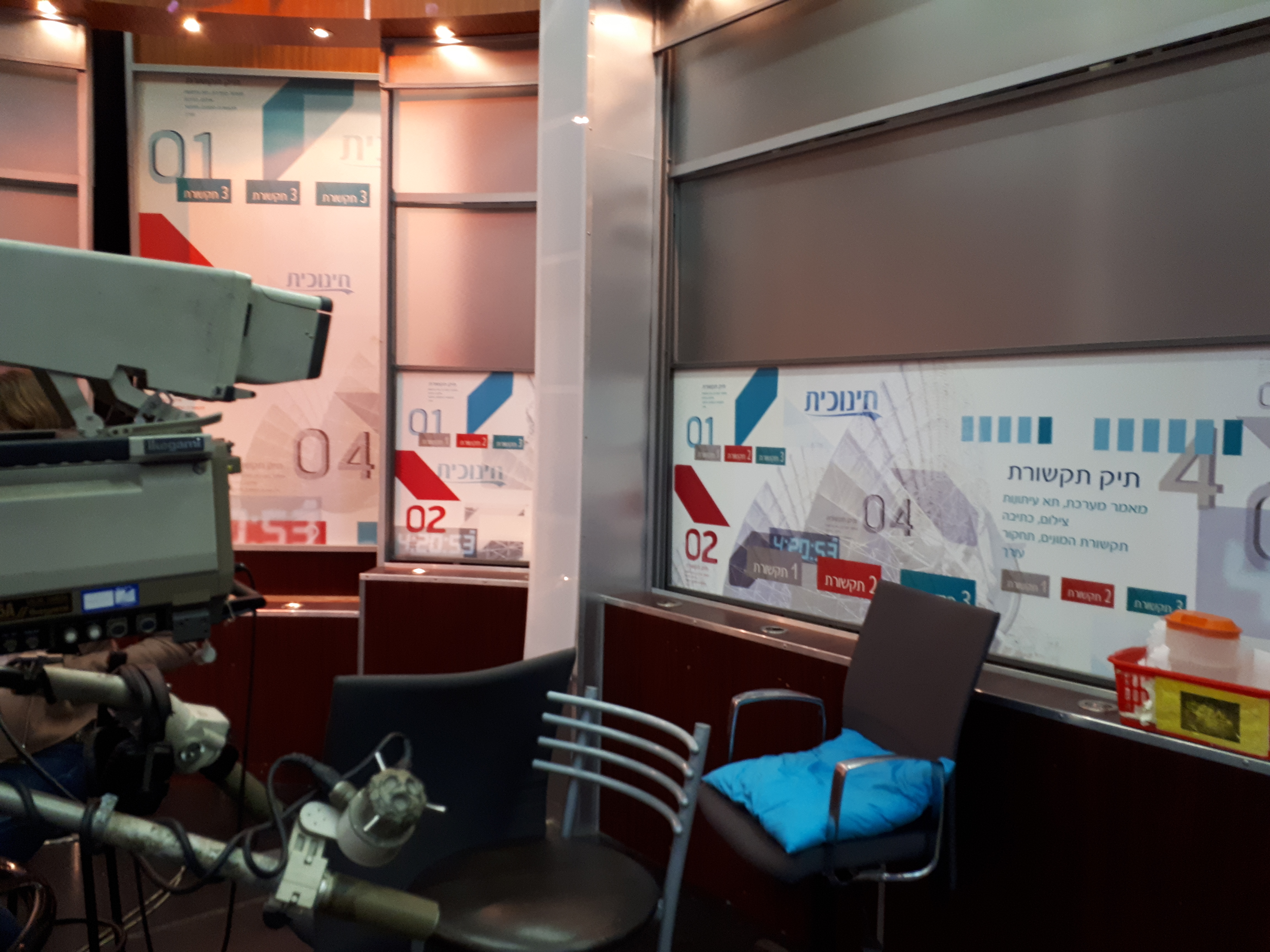 Television Studios of IETV. Tel Aviv. April 2018